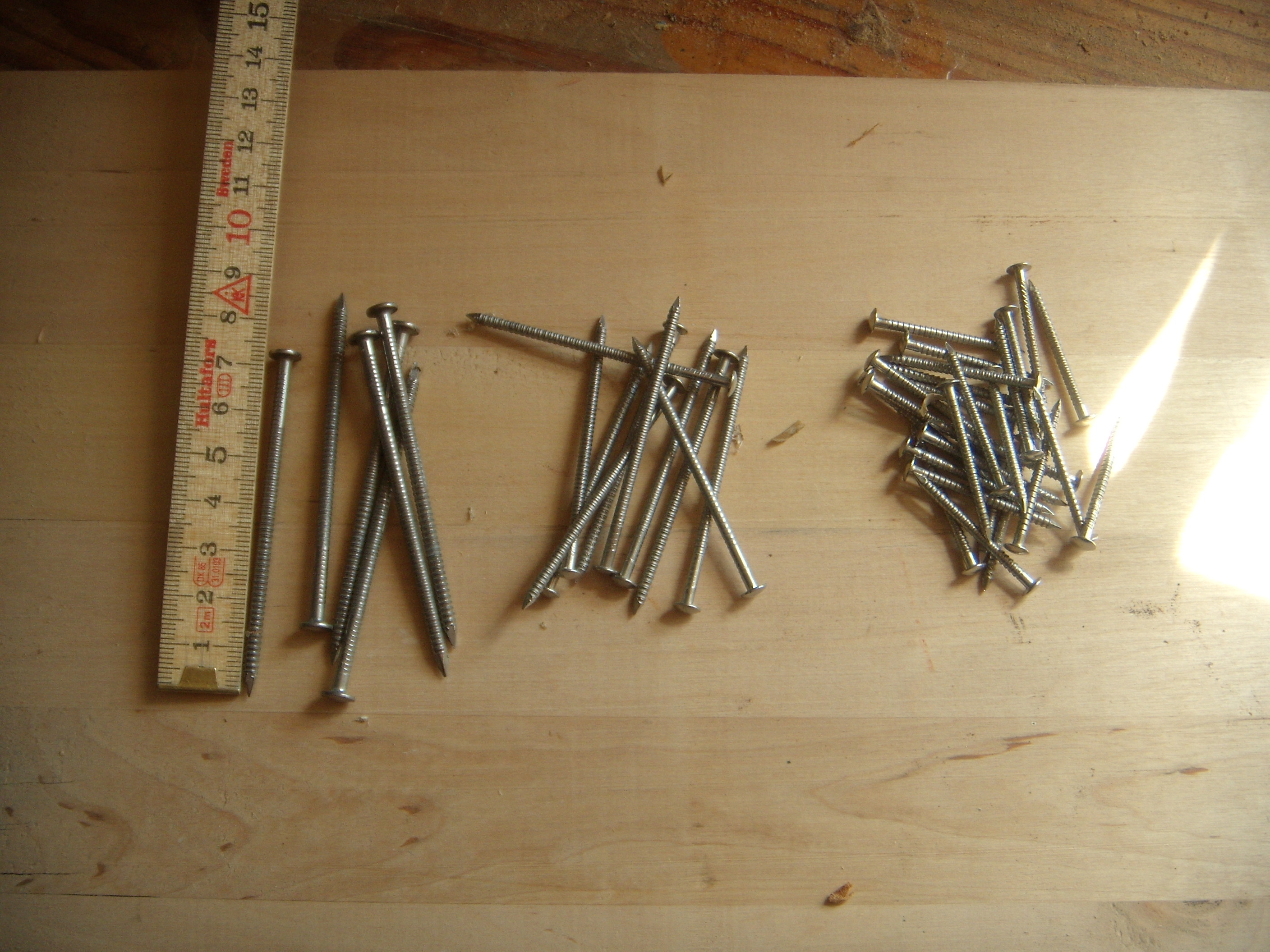 Metal nails